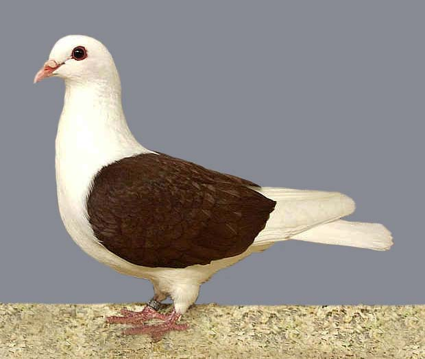 Thuringian Shield (Red)